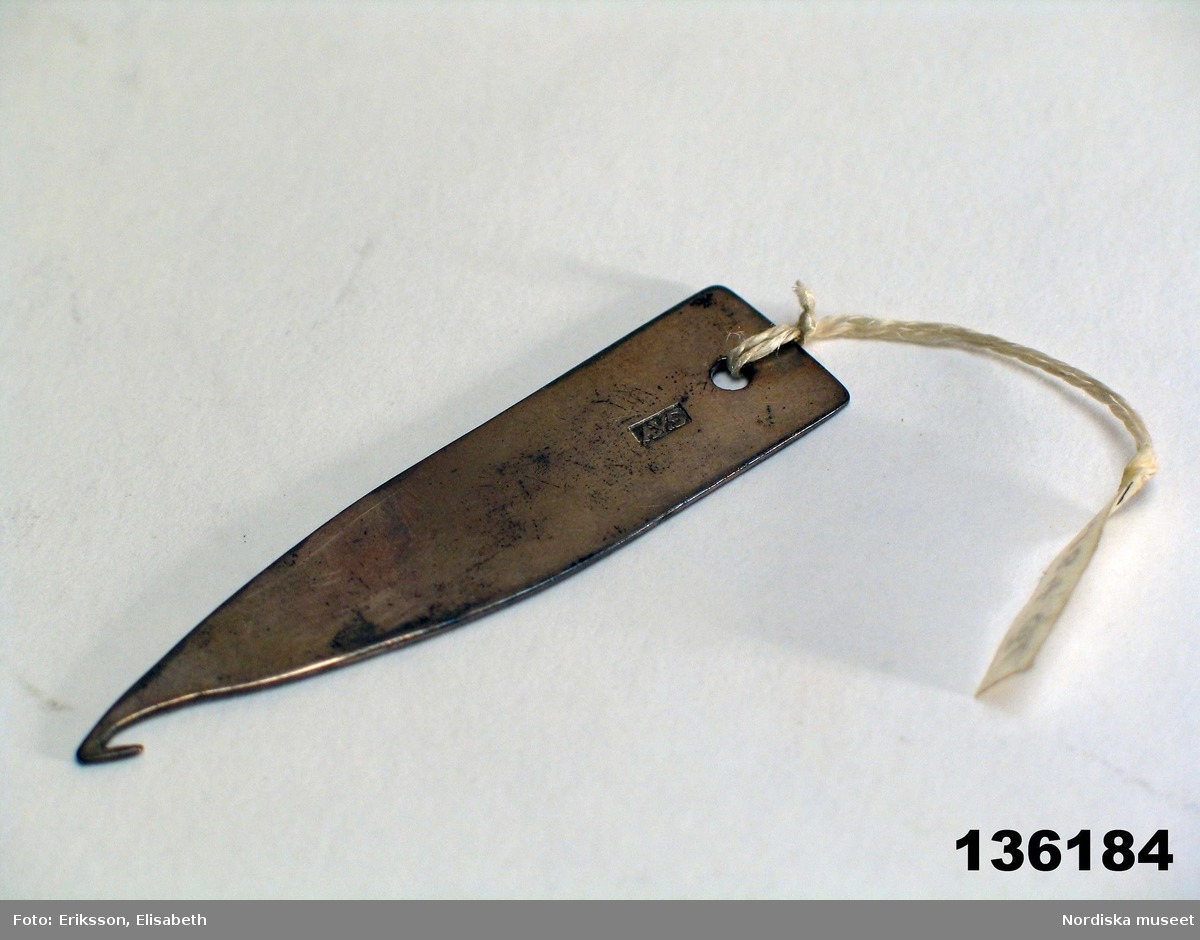 Shepherd's hook ("virknål") in the collection of the Nordic Museum in Stockholm, from 1778